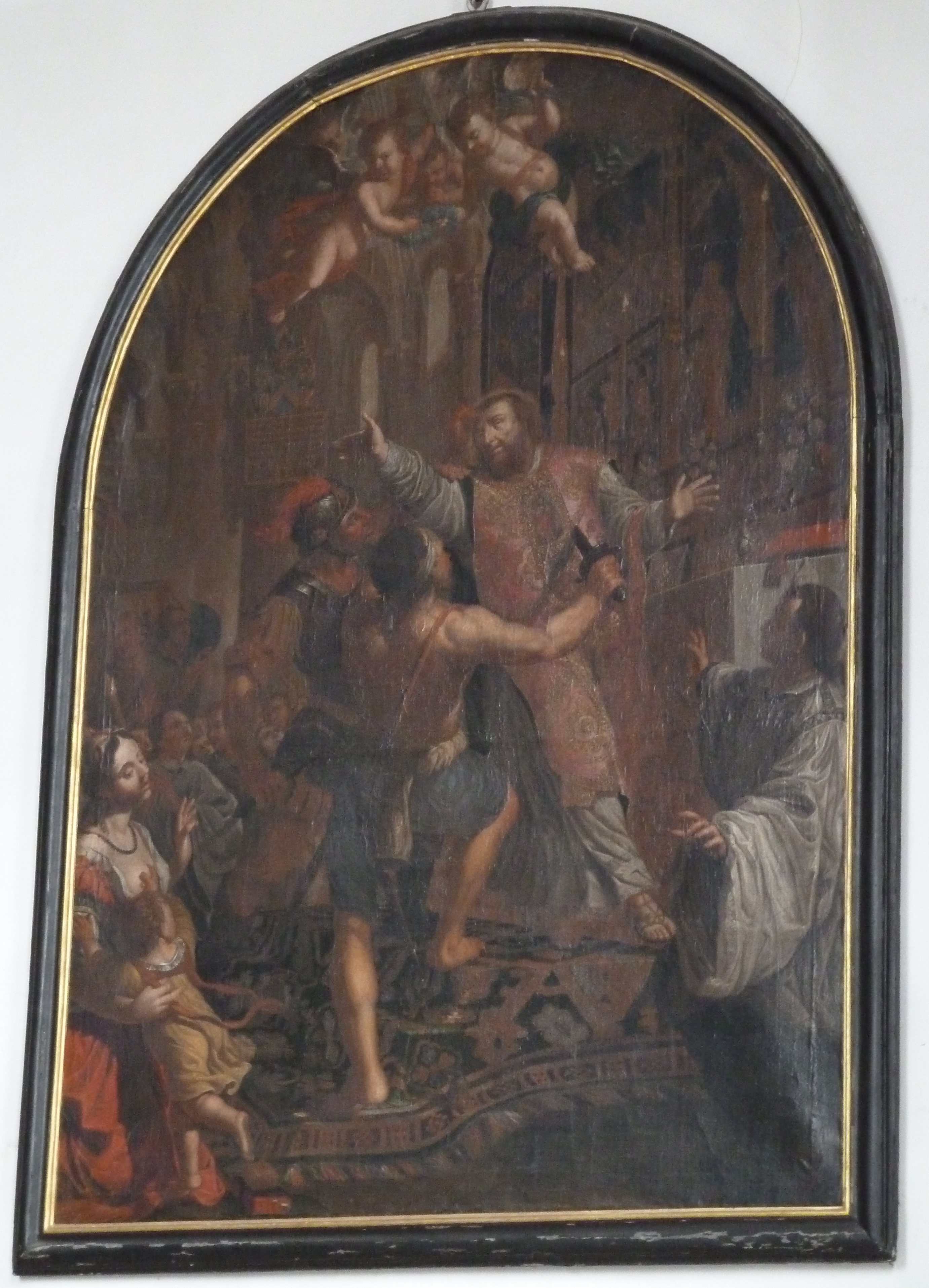 own file